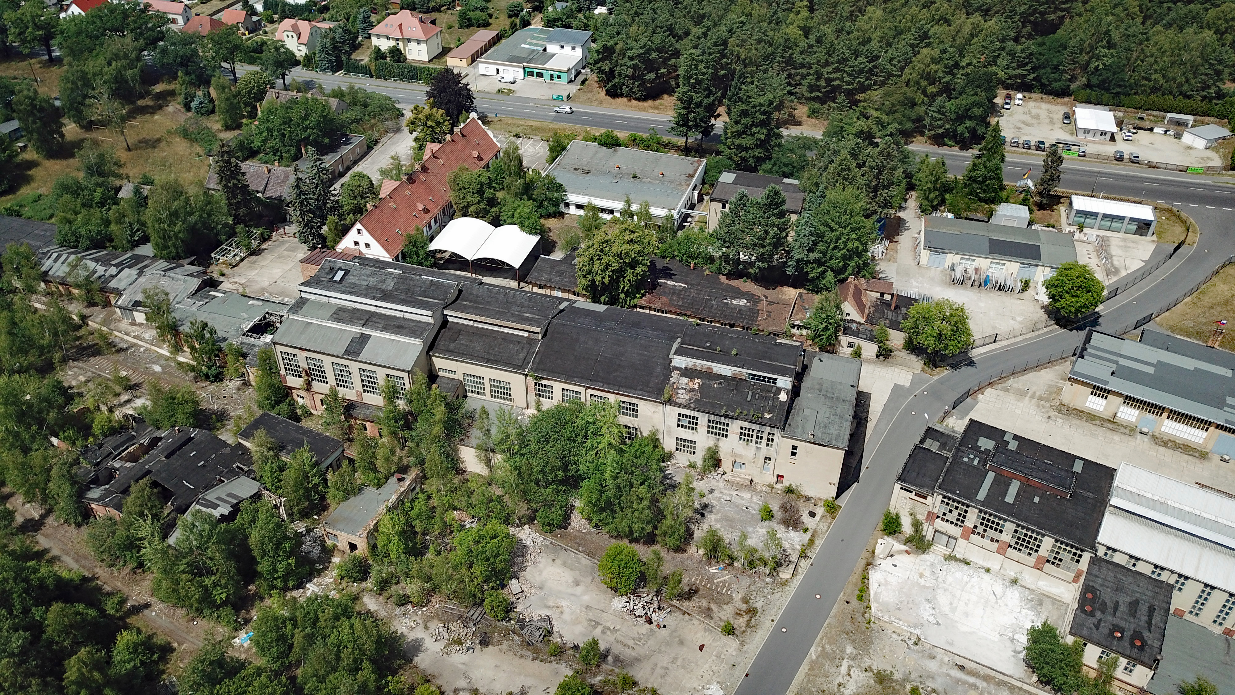 Zinkweißhütte (Bernsdorf, Saxony, Germany)